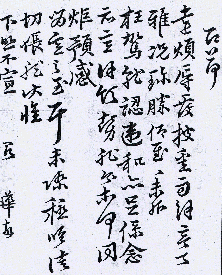 Letter of Heo yeop